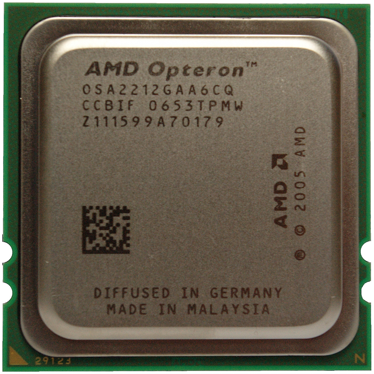 AMD Opteron 2212 Dual-Core Prozessor 2 GHz, Santa Rosa core, Rev F2, Socket F